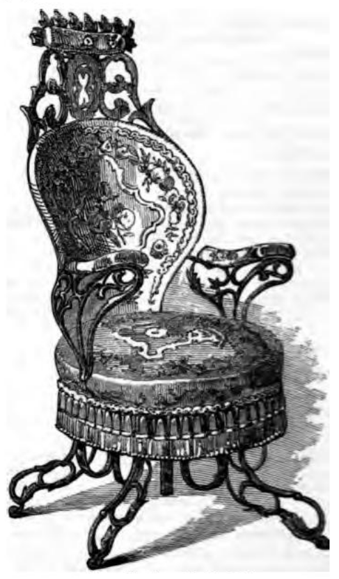 The Centripetal Spring Armchair by Thomas E. Warren depicted in the exhibition catalogue of the 1851 Great Exposition in London.